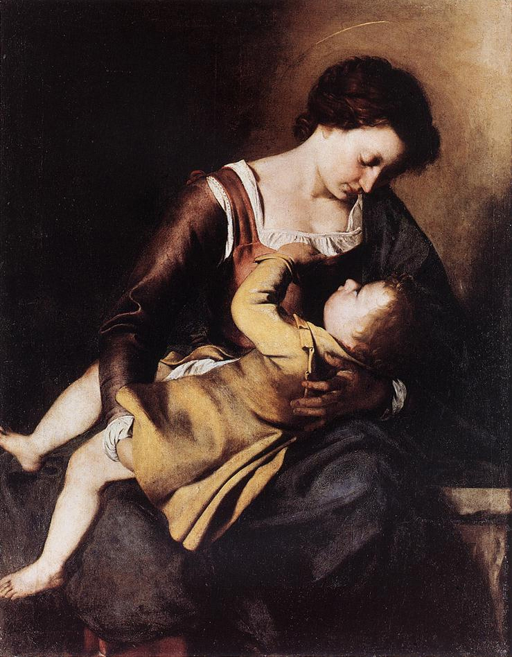 Orazio Gentileschi (?) - Madonna and Child - Oil on Canvas - 131 x 91 cm - Galleria nazionale d'arte antica, Rome